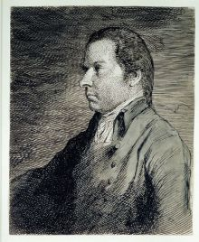 Francis Douce (pronounced /ˈdaʊs/) (1757 – March 30, 1834) was an English antiquary. He was born in London. His father was a clerk in Chancery. After completing his education he entered his father's office, but soon quit it to devote himself to the study of antiquities. He became a prominent member of the Society of Antiquaries, and for a time held the post of keeper of manuscripts in the British Museum, but was compelled to resign it owing to a quarrel with one of the trustees.